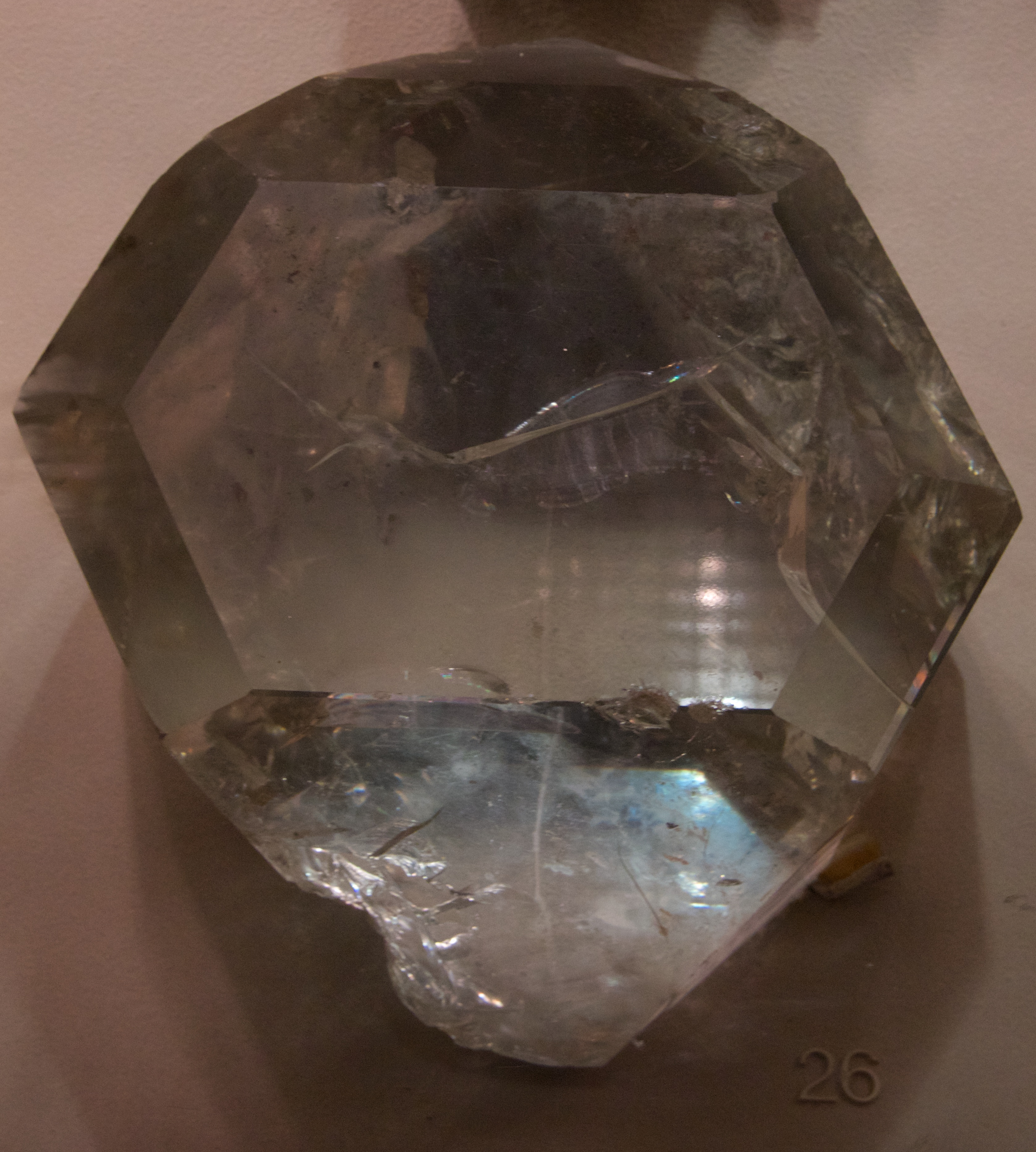 Topaz. Governador Valadares, Minas Gerais, Brazil. At the American Museum of Natural History, New York.